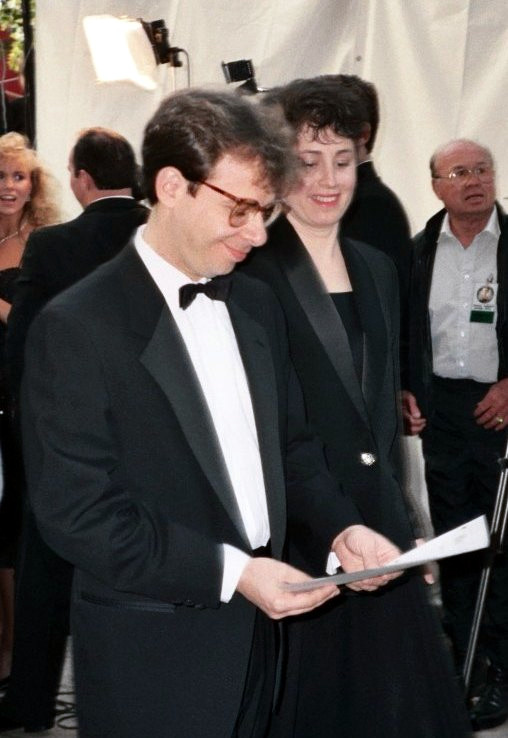 Rick Moranis at the 62nd Academy Awards NOTE: Permission granted to copy, publish, broadcast or post any of my photos, but please credit "photo by Alan Light" if you can. Thanks. Scanned from the original 35MM film negative.